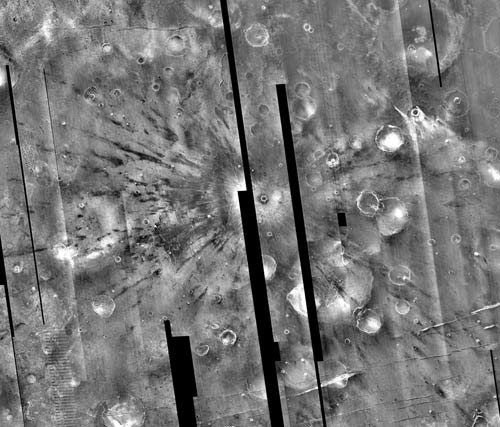 A mosaic of infrared images taken at night by THEMIS over Gratteri Crater, Mars. Each THEMIS observation is 32 km across (320 pixels across with a nominal pixel resolution of 100 meters per pixel).